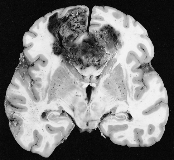 CNS: GLIOBLASTOMA MULTIFORME This typical untreated glioblastoma, here with the classic "butterfly" configuration, is a necrotic hemorrhagic mass. (Courtesy of Dr. Rodney D. McComb, Omaha, NE.)